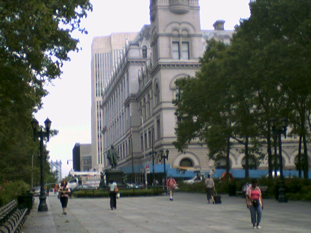 Looking north at Brooklyn central Post Office, statue of Henry Ward Beecher, new Federal Courthouse, and Manhattan Bridge